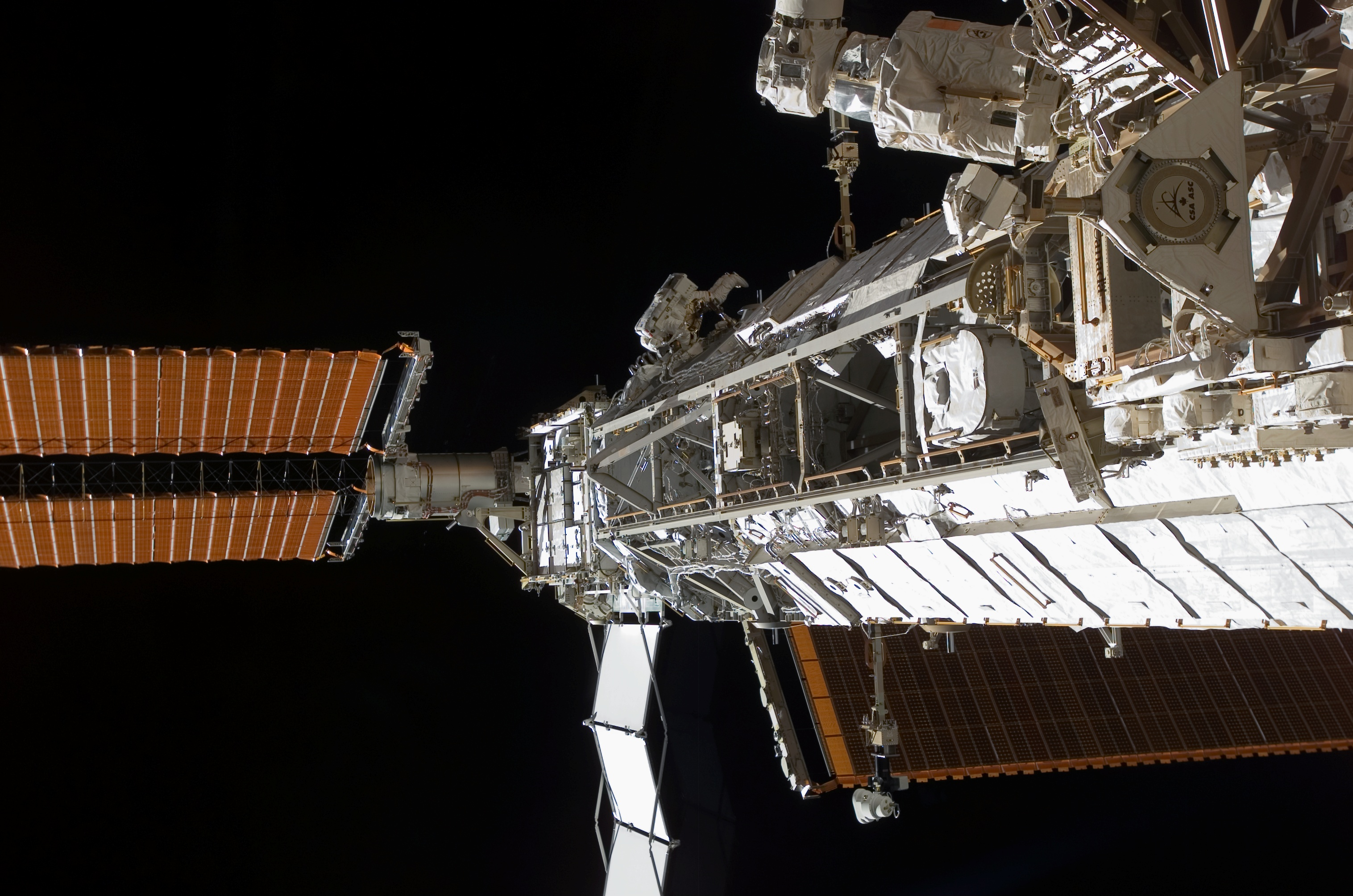 Astronauts Patrick Forrester and Steven Swanson (out of frame), both STS-117 mission specialists, participate in the mission's second planned session of extravehicular activity (EVA), as construction resumes on the International Space Station. Among other tasks, Forrester and Swanson removed all of the launch locks holding the 10-foot-wide solar alpha rotary joint in place and began the solar array retraction.